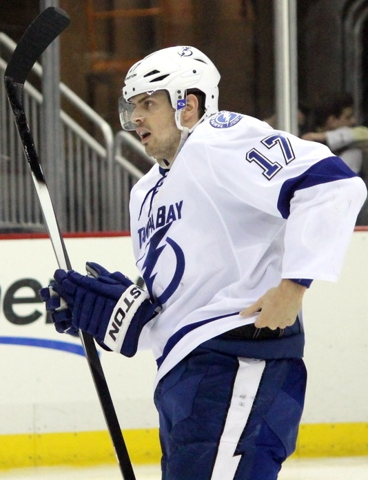 Tampa Bay Lightning forward Alex Killorn during a game against the Pittsburgh Penguins, March 22, 2014, at Consol Energy Center in Pittsburgh, PA.